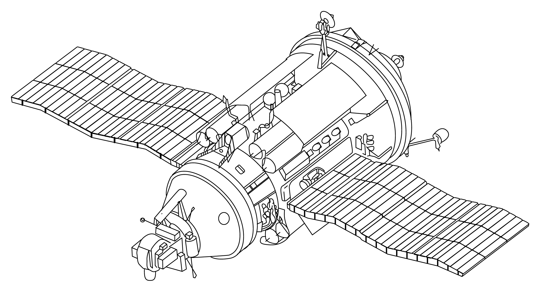 A diagram of the Soviet TKS spacecraft Kosmos 1686. Note the spacecraft's VA capsule (visible to the left left), heavily modified to house scientific instruments.